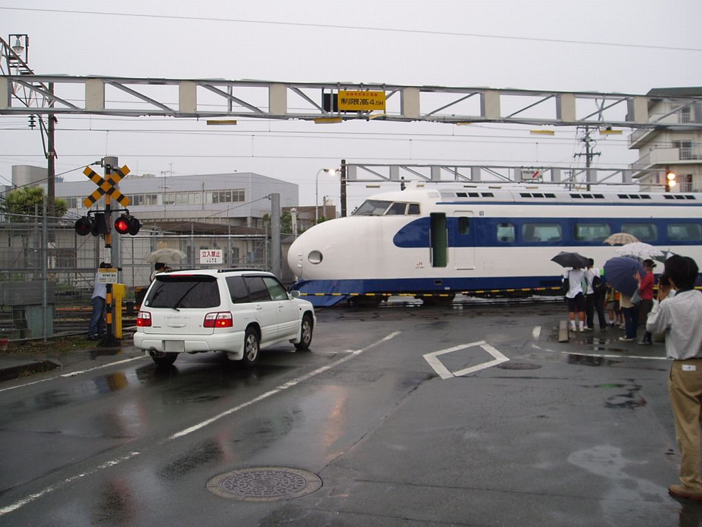 An 0 series shinkansen car being moved over the level crossing near Hamamatsu Shinkansen Works in Shizuoka Prefecture, Japan